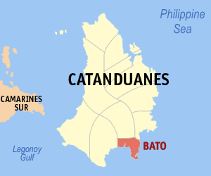 Map of Catanduanes showing the location of Bato